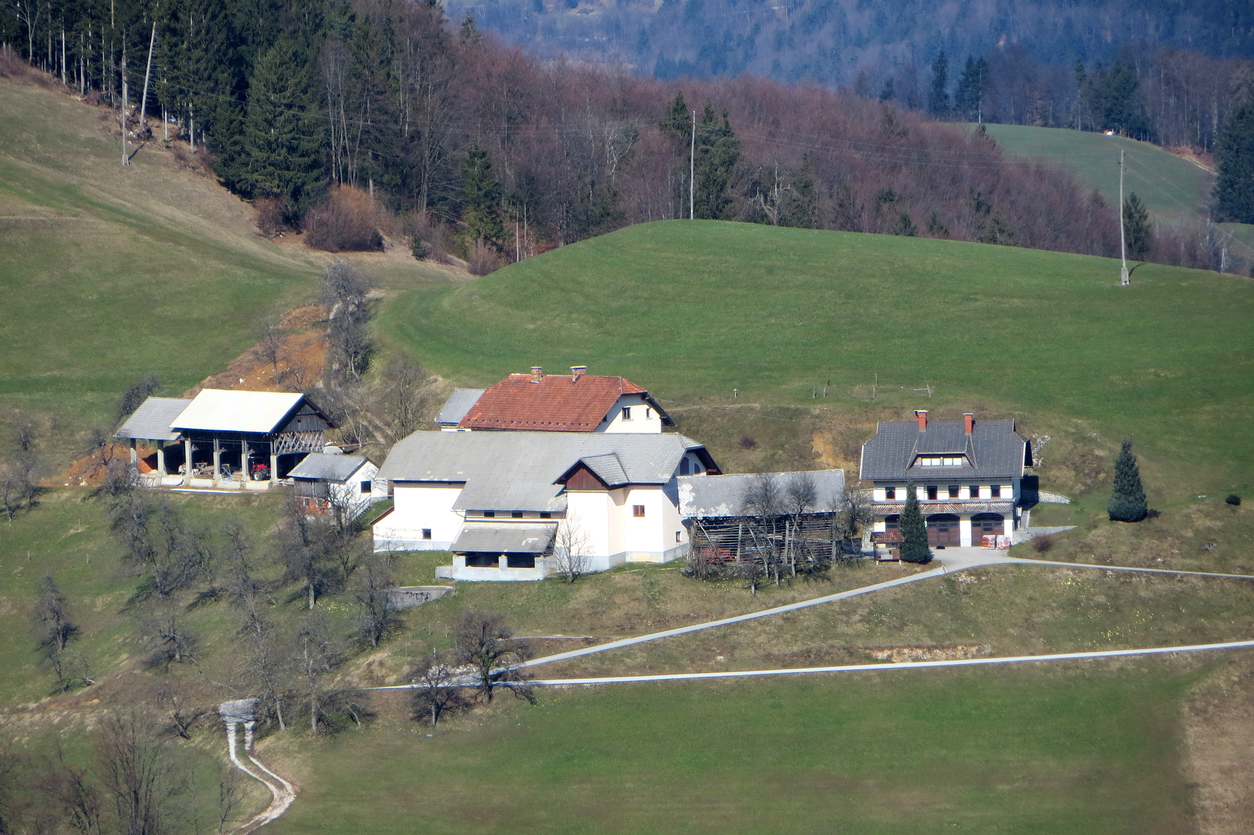 The Planišek farm in Kremenik, Municipality of Gorenja Vas–Poljane, Slovenia seen from Zadobje